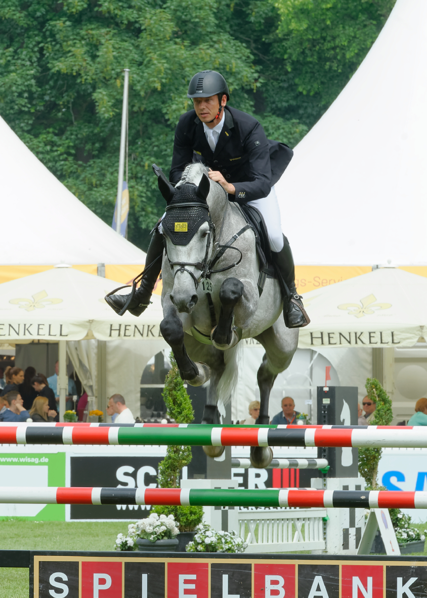 CSIYH* int. Springprüfung nach Strafpunkten und Zeit Internationales Pfingstturnier Wiesbaden 2015 The making of this document was supported by the Community-Budget of Wikimedia Germany.